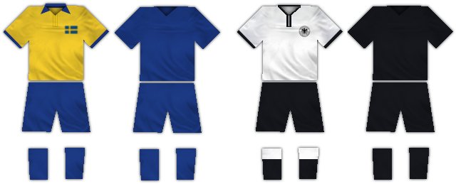 Kits of the FIFA Worldcup Semifinal 1958, Sweden vs. Germany (3–1)